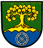 Coat of arms of Lindhorst.